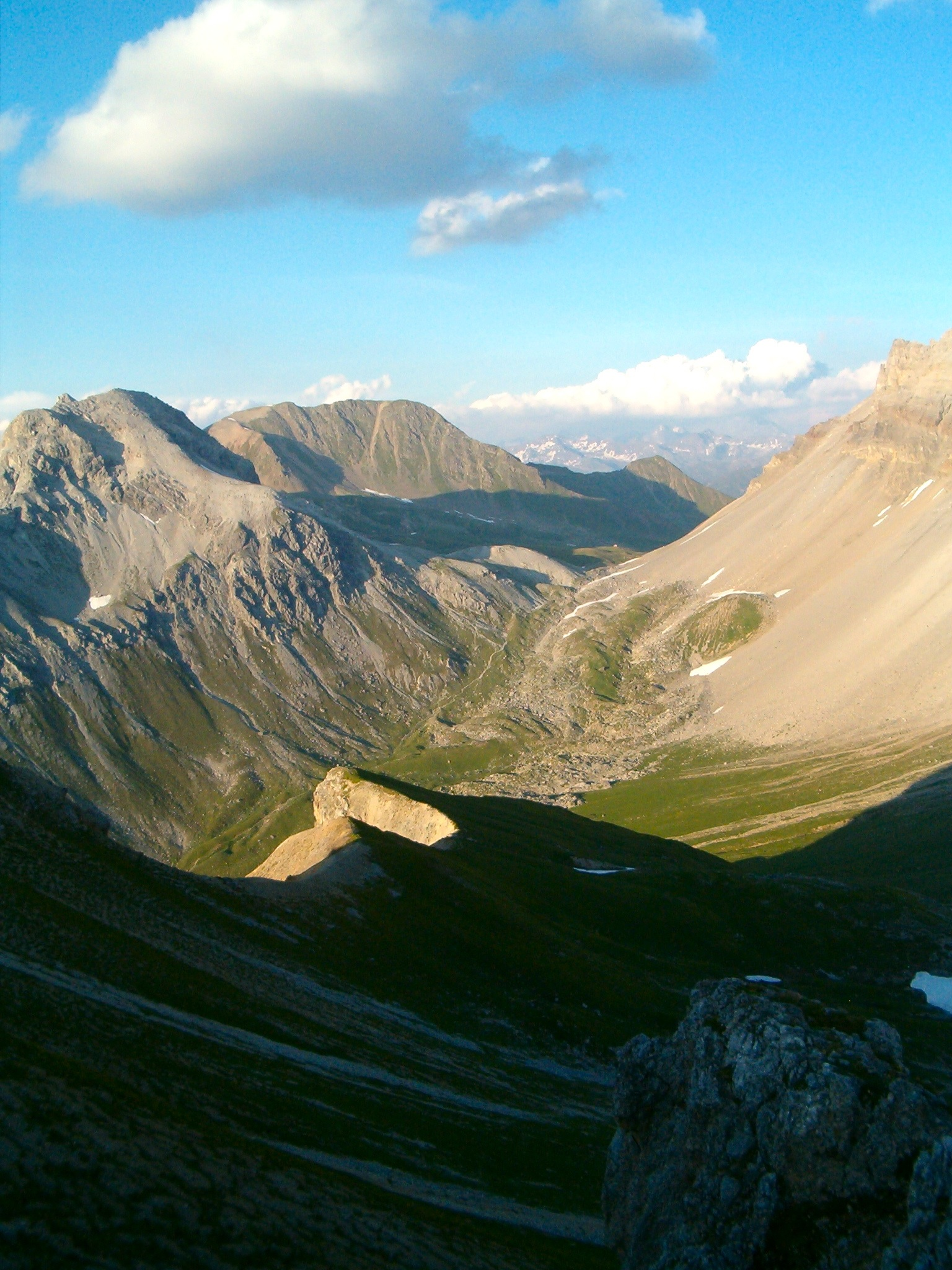 Maienfelder Furgga between Arosa and Davos, seen from Schiesshorn